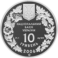 Coin of Ukraine